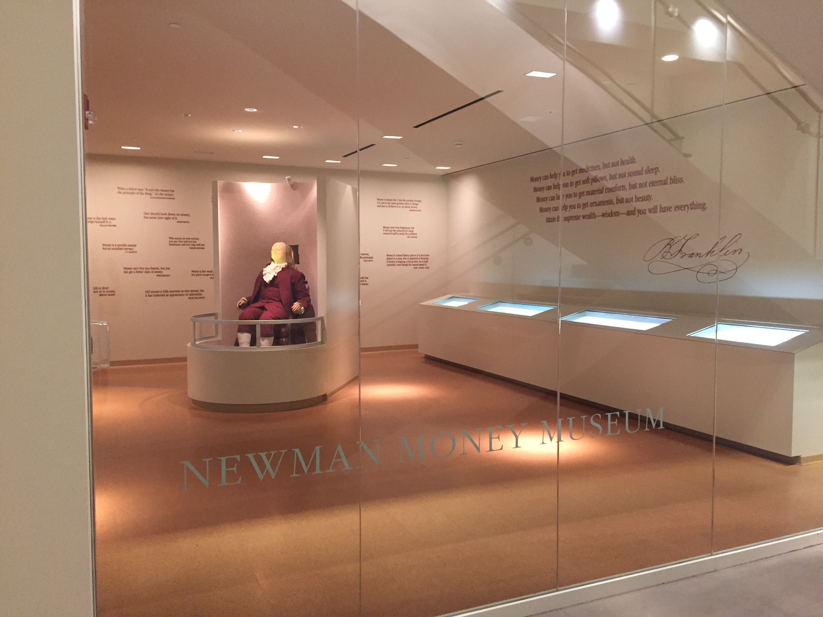 The Newman Money Museum housed within the Mildred Lane Kemper Art Museum.